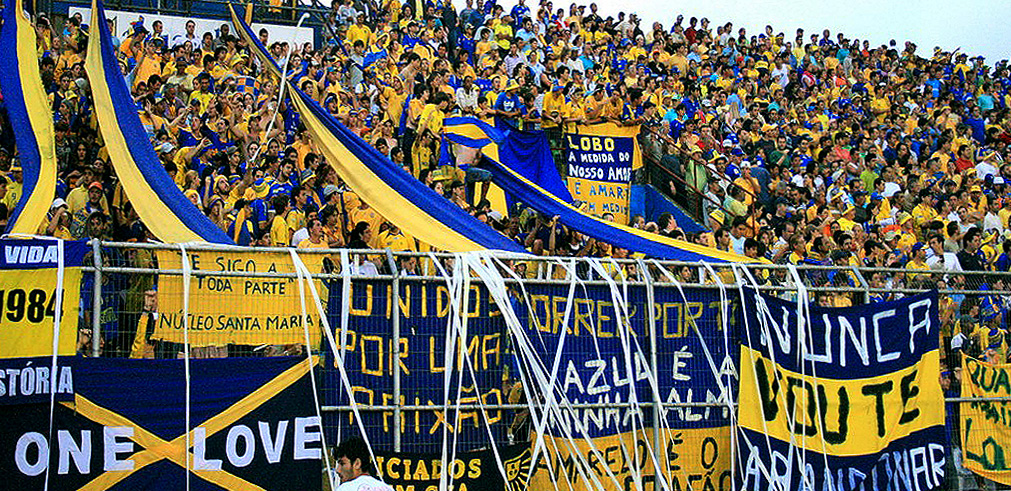 Unidos Por Uma Paixão (United by Passion). Fans of Esporte Clube Pelotas.